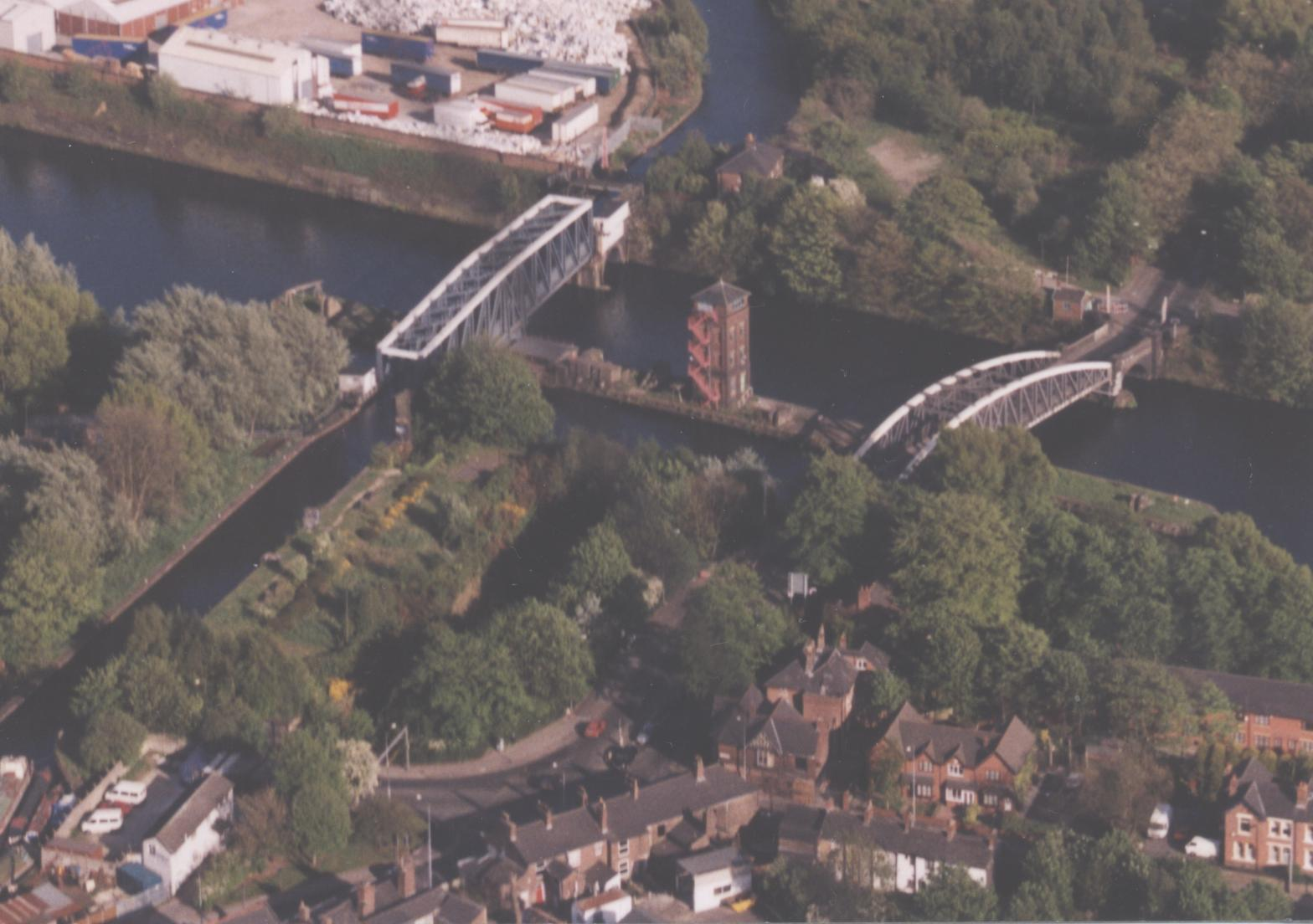 Aerial view of the SW part of Barton showing the Ship Canal, Bridgewater Canal, bridges and housing.